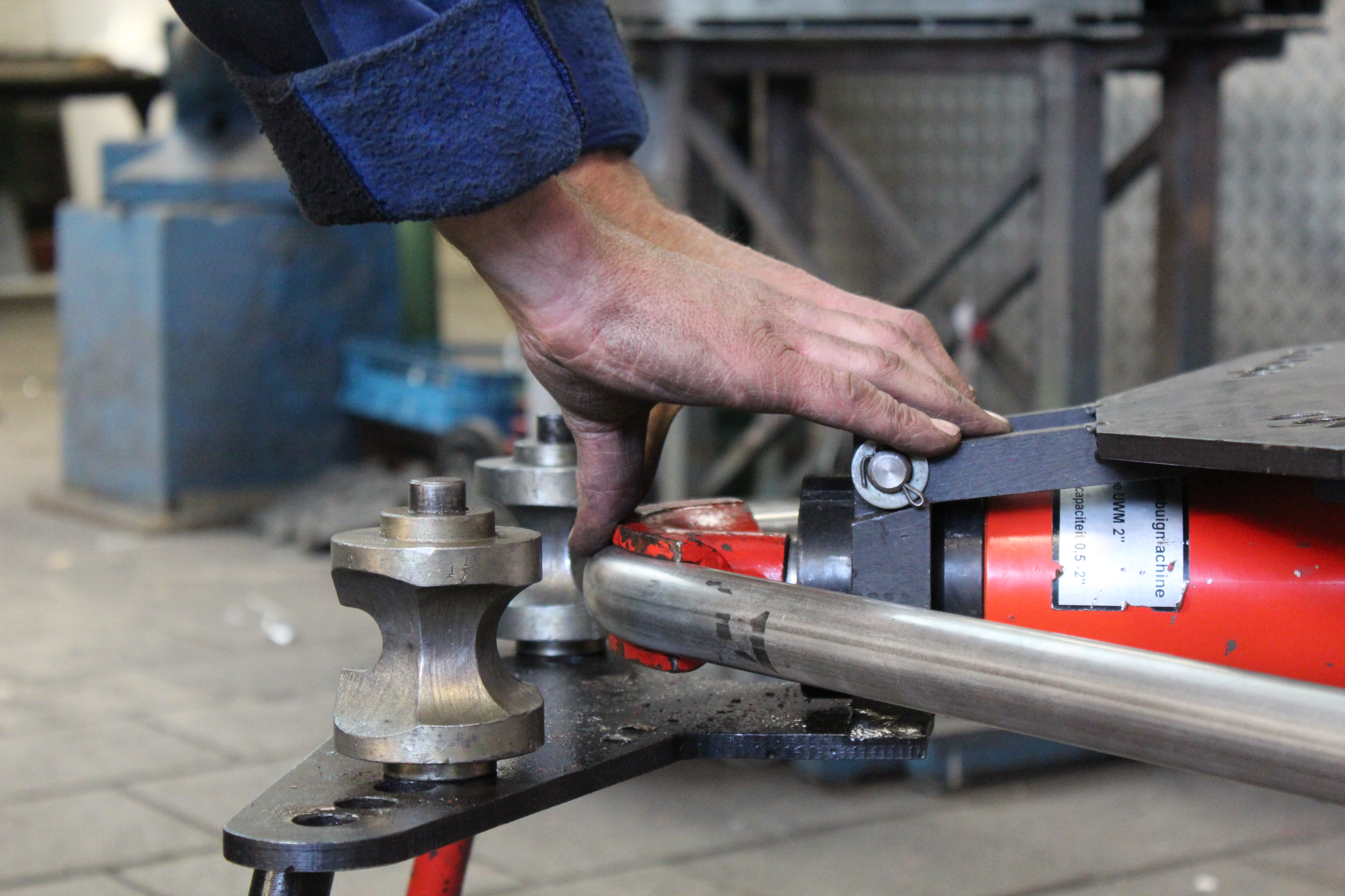 Bending a metal rod to construct a frame.